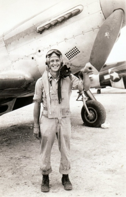 Author: US Army Air Corps Source: Private collection of S.Michalowski, Jr. Second Lieutenant Stanley E. Michalowski, 342nd Fighter Squadron, Standing by his P-51D Mustang, Ie Shima, Japan, August 1945. Tags: Ie Shima,P-51,342nd Fighter Squadron,Michalowski,348th Fighter Group